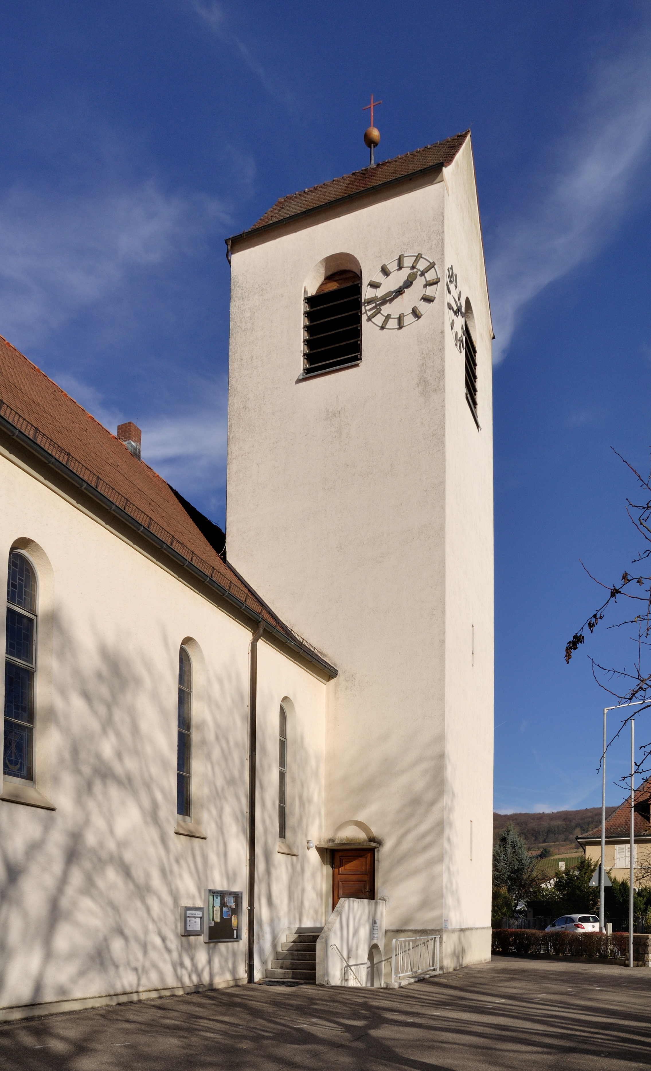 Church St. Maria, Weil am Rhein